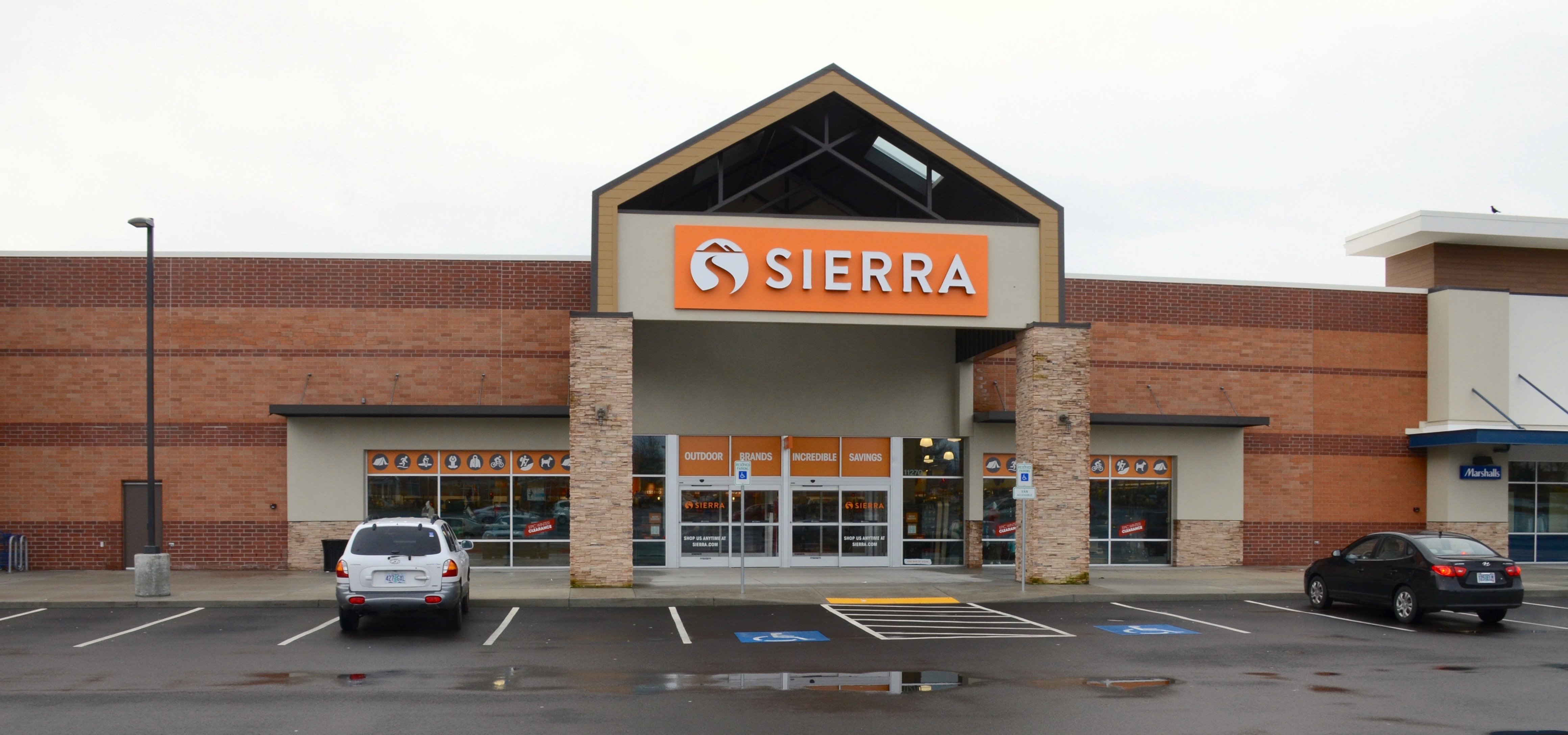 The Sierra Trading Post store in the Tanasbourne Town Center shopping complex in the Tanasbourne area of eastern Hillsboro (and northwestern Beaverton), Oregon. This store opened in October 2017, in a building formerly occupied by a Haggen grocery store.